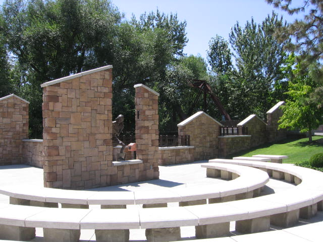 The Anne Frank & Human Rights Memorial on the Boise Greenbelt.